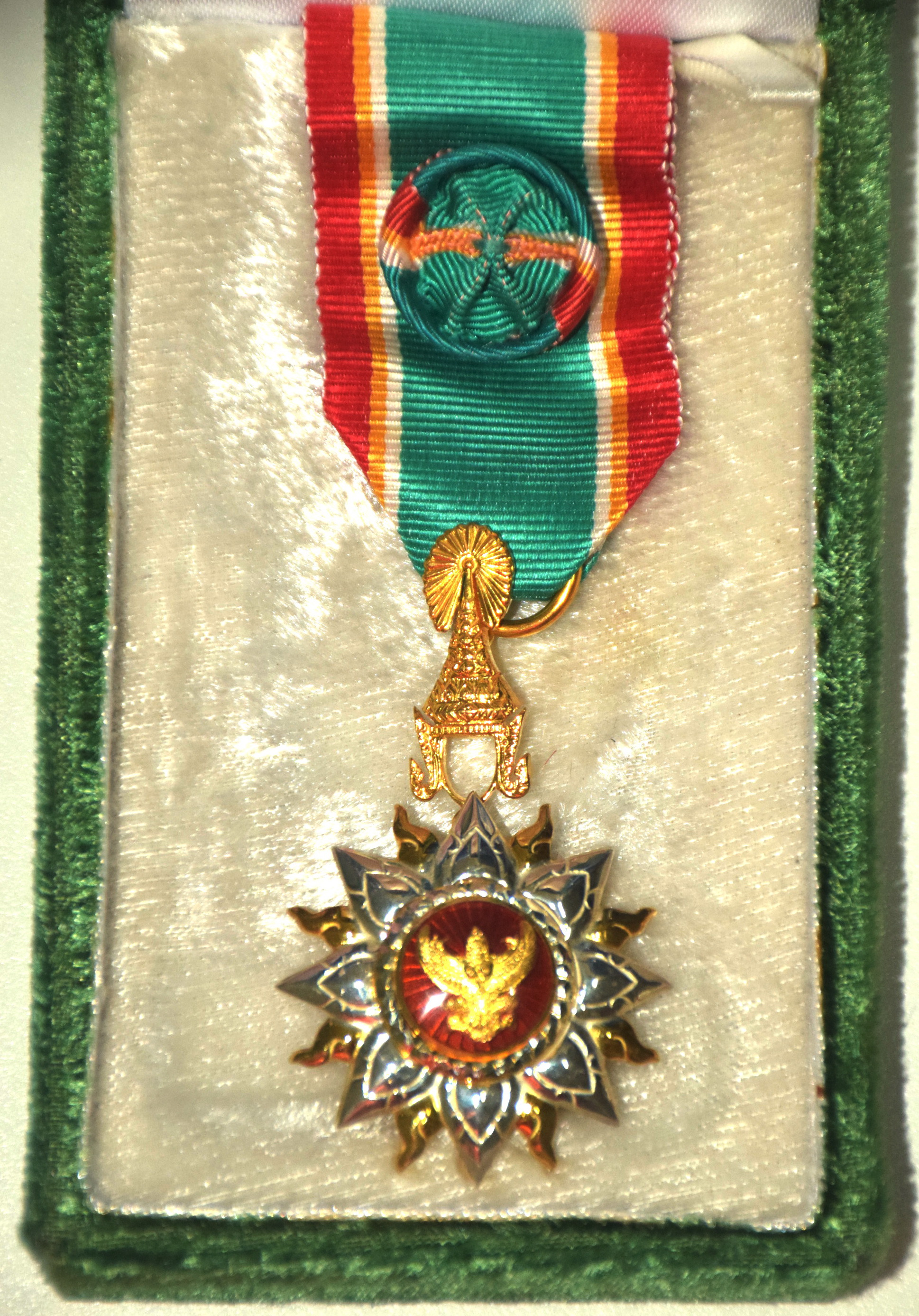 Chatuttha Direkkhunaphon Order of the Direkgunabhorn of Thailand in Wat Kungtapao Local Museum. at Wat Khung Taphao, Ban Khung Taphao, Khung Taphao subdistrict, Mueang Uttaradit, Uttaradit Province, Thailand.)